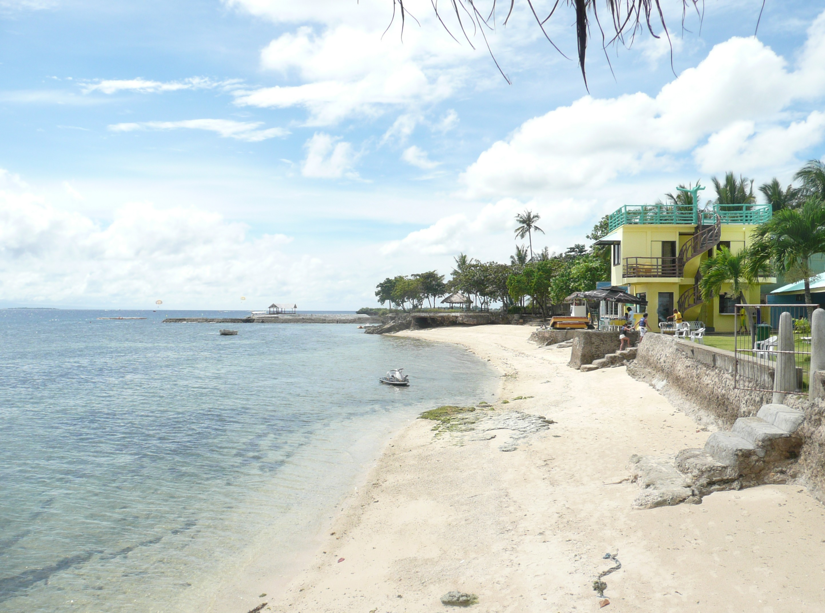 Beach resort on Mactan Island, Philippines